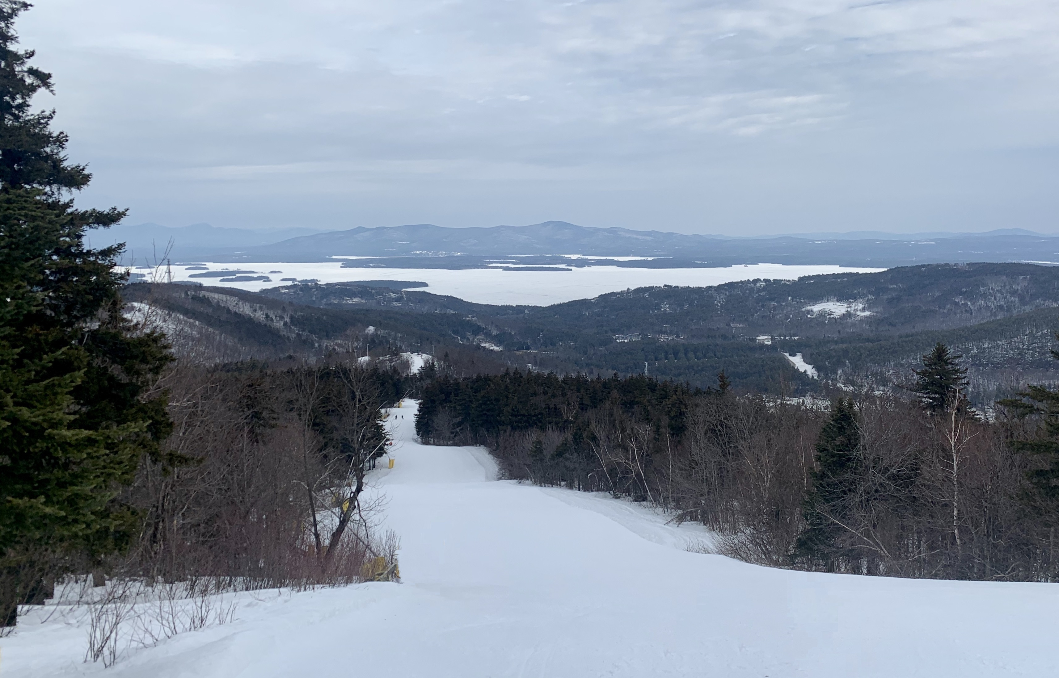 Lake Winnipesaukee seen from Gunstock Mountain Resort, Guilford, New Hampshire, February 25, 2020